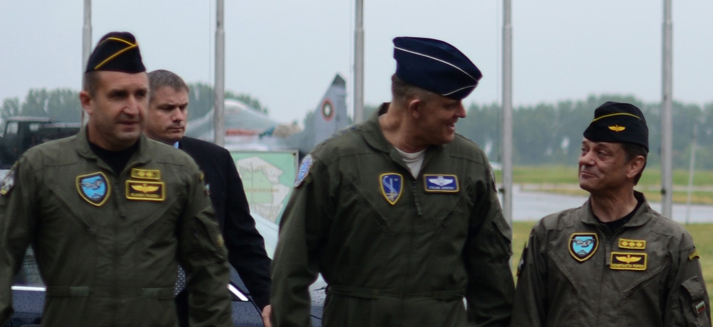 U.S. Air Force Gen. Frank Gorenc, U.S. Air Forces in Europe and Air Forces Africa commander, converses with U.S. and Bulgarian Air Force leaders after arriving at Graf Ignatievo Air Base, Bulgaria, May 11, 2015. Gorenc visited the base to speak with U.S. and Bulgarian Airmen about the joint training occurring as part of a Theater Security Package deployment of Airmen from the 159th Expeditionary Fighter Squadron. Maj. Gen. Rumen Radev, Bulgarian Air Force commander, left, U.S. Air Force Gen. Frank Gorenc, U.S. Air Forces in Europe and Air Forces Africa commander, center, and Lt. Gen. Constantin Popov, Bulgarian deputy chief of defense.